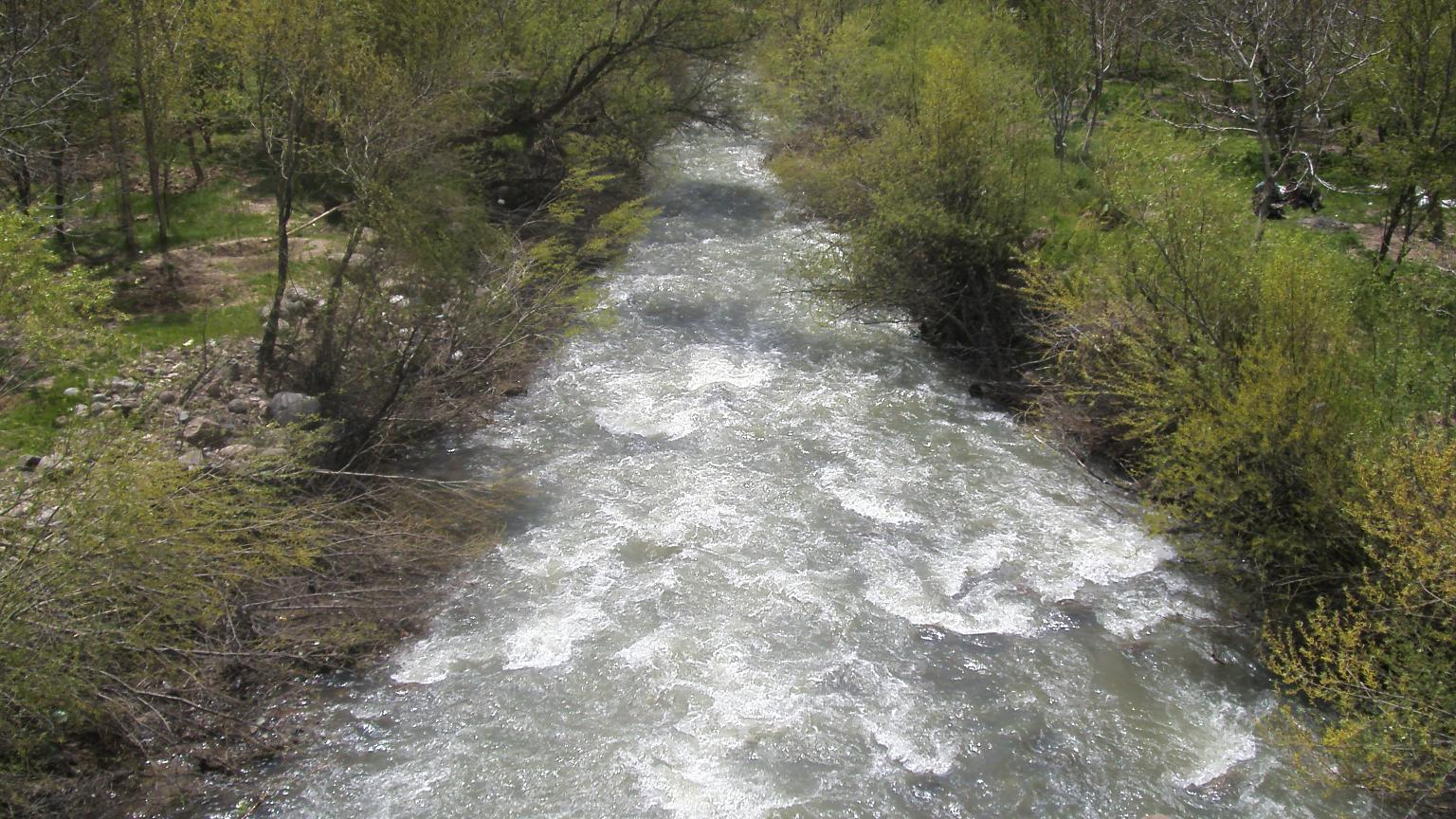 Sufichay river, Maragheh, Iran